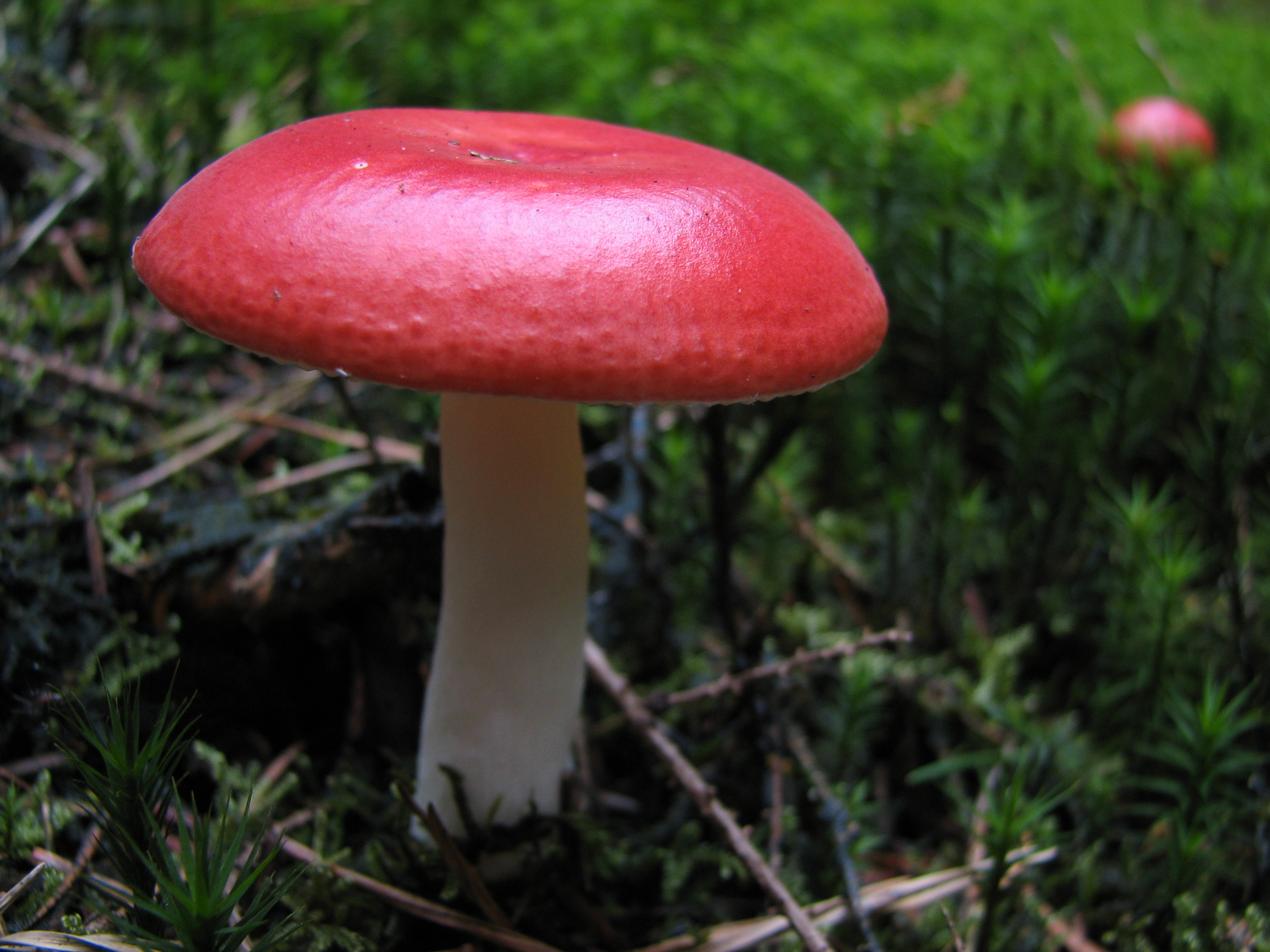 mushroom